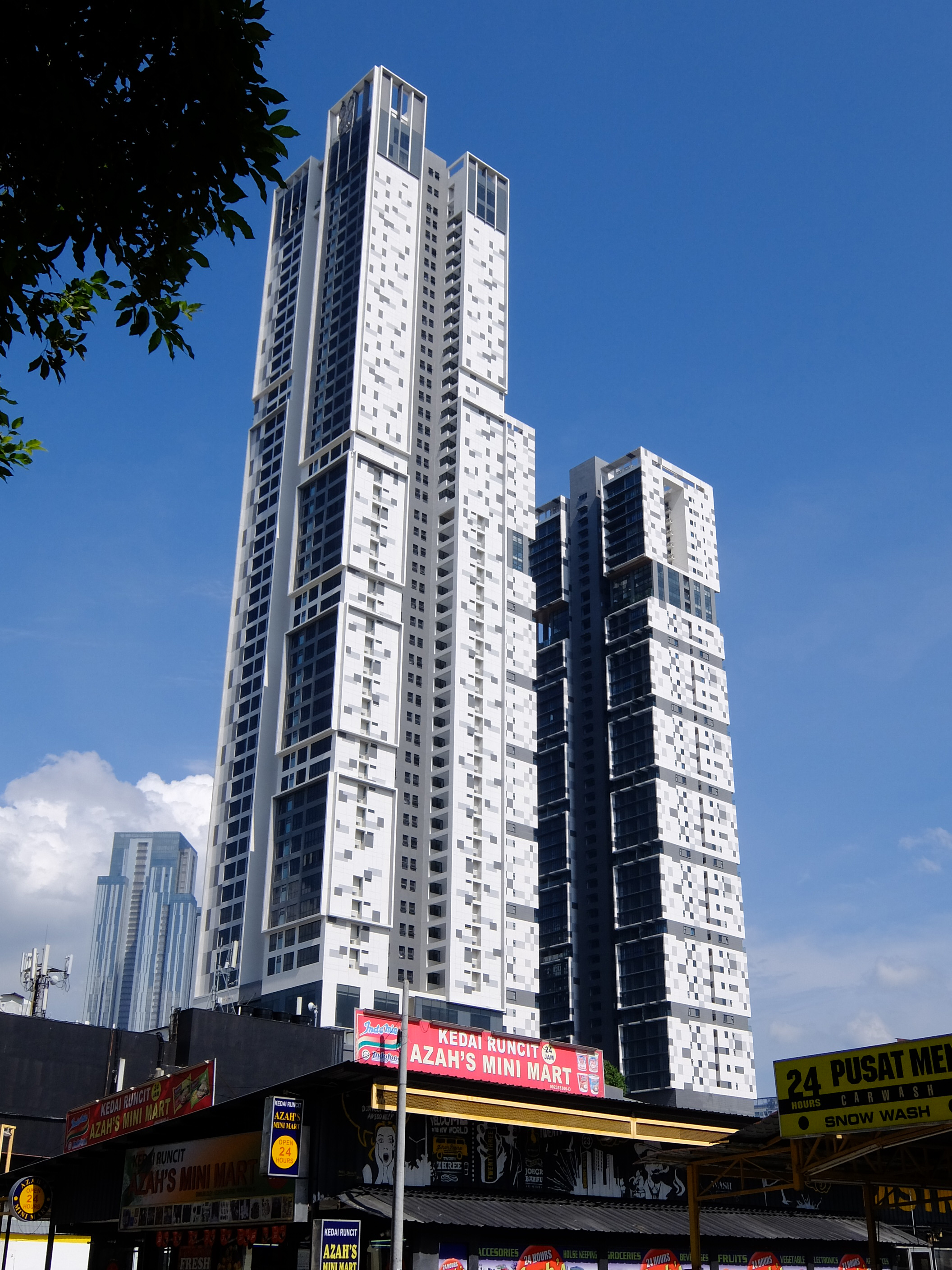 Sky 88 Apartment, Wadi Hana, Johor Bahru, Johor, Malaysia